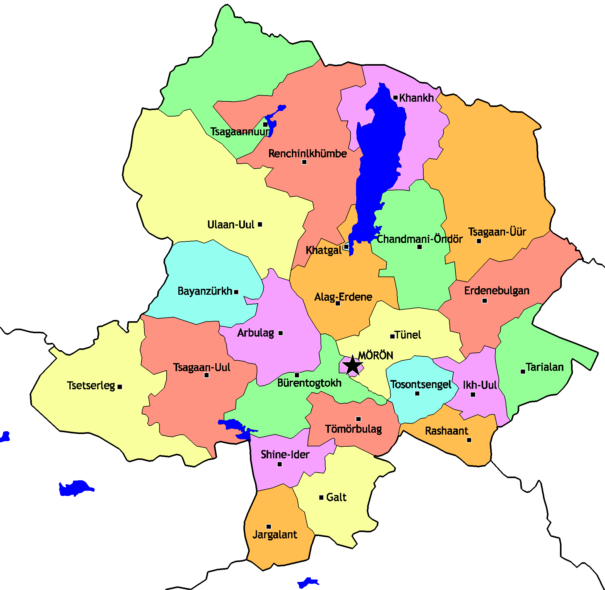 Map of the Khovsgol aimag with the sums